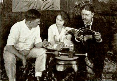 Still taken during the production of the American film Trailed by Three (1920) with director Perry N. Vekroff and actors Frankie Mann and Stuart Holmes (shown reading the Motion Picture News), shown on page 1661 of the August 23, 1919 Motion Picture News.